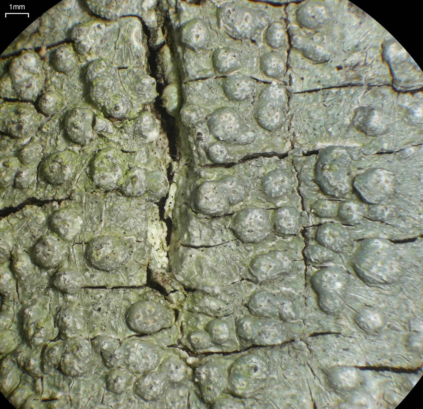 The lichen Pertusaria paratuberculifera Dibben. Specimen photographed in Dabney Creek, Madison Co., Arkansas, USA. "Notes: on bark of hickory in bright open young forest on small ridge"